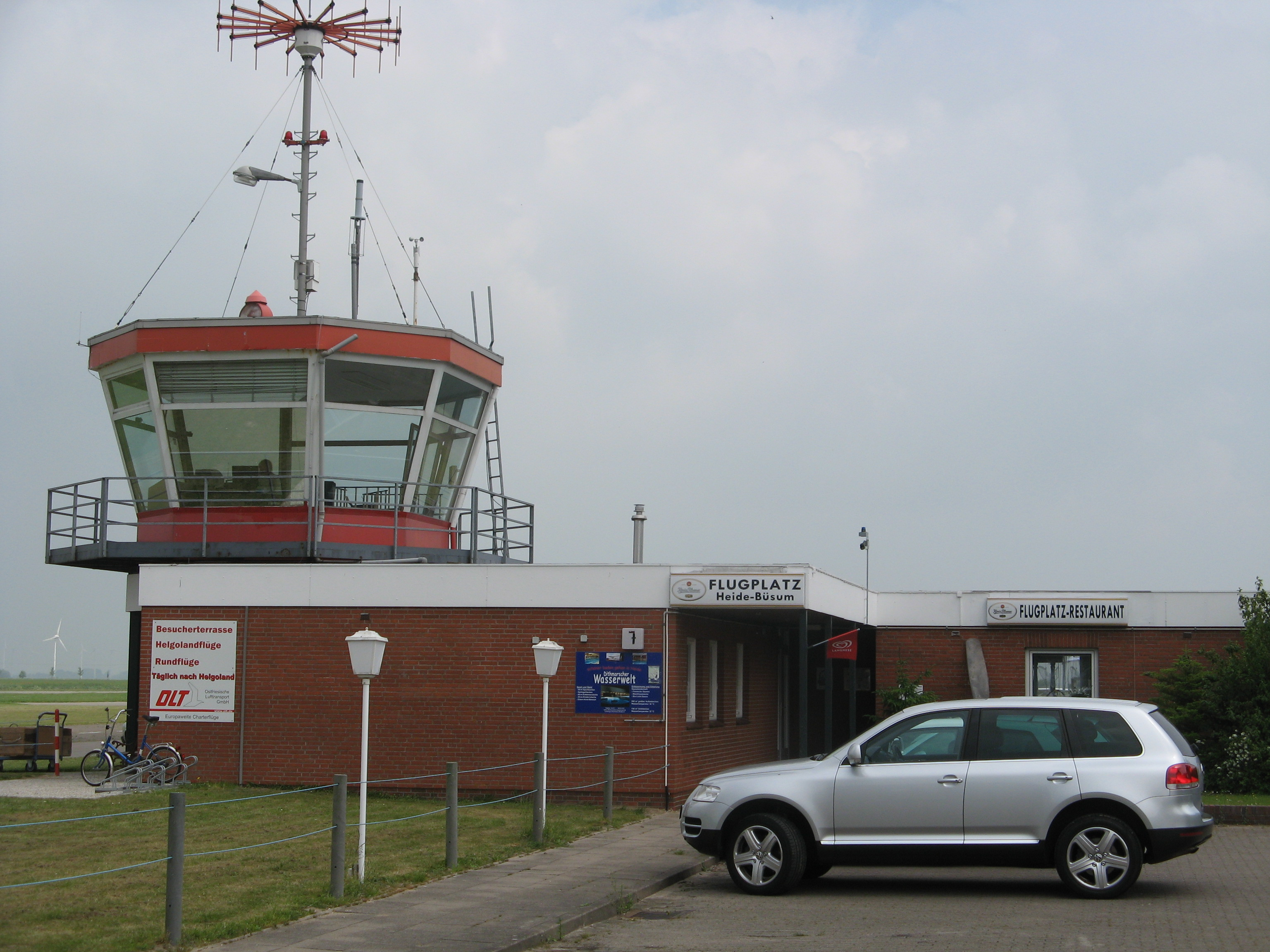 main building of heide-büsum airport in oesterdeichstrich